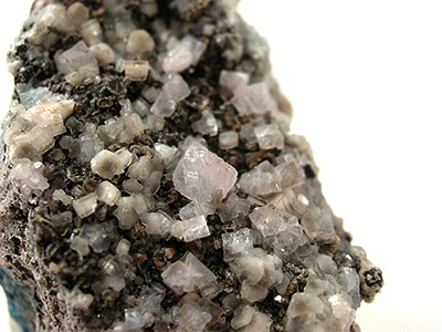 Goyazite, Siderite Locality: Rapid Creek, Dawson Mining District, Yukon Territory, Canada (Locality at ) Size: thumbnail, Goyazite , Siderite Smaller crystals but on one of the few pieces showing such nice isolation on contrasting matrix!